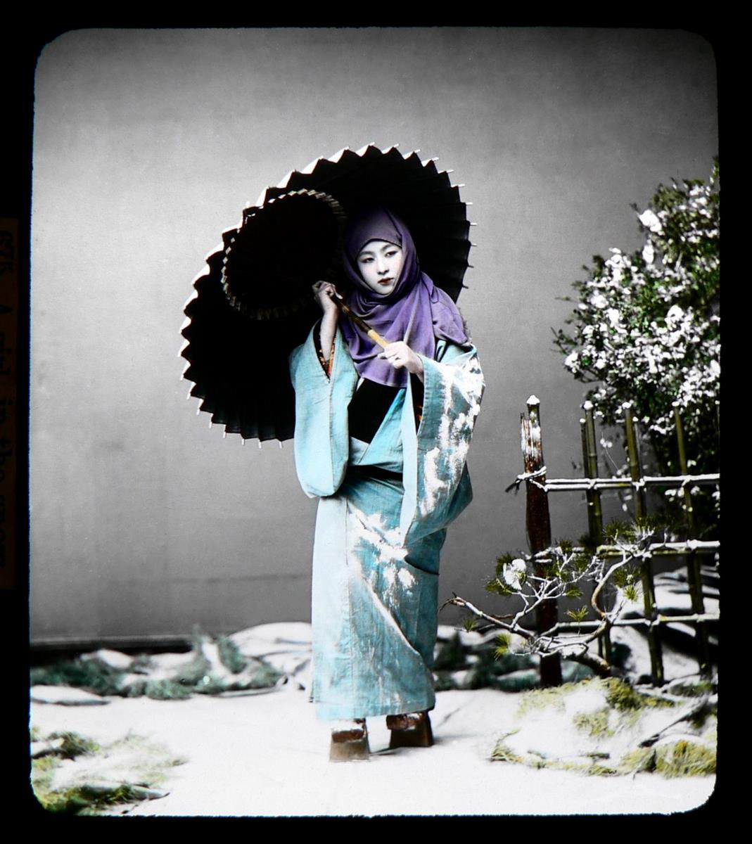 Photograph of a girl walking in the snow by T. Enami, printed and colored circa 1905, from a negative produced circa 1892.